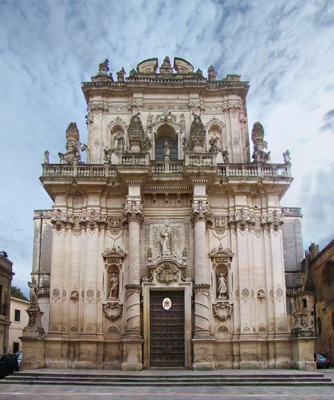 Church of San Giovanni Battista, Lecce, Apulia, Italy.